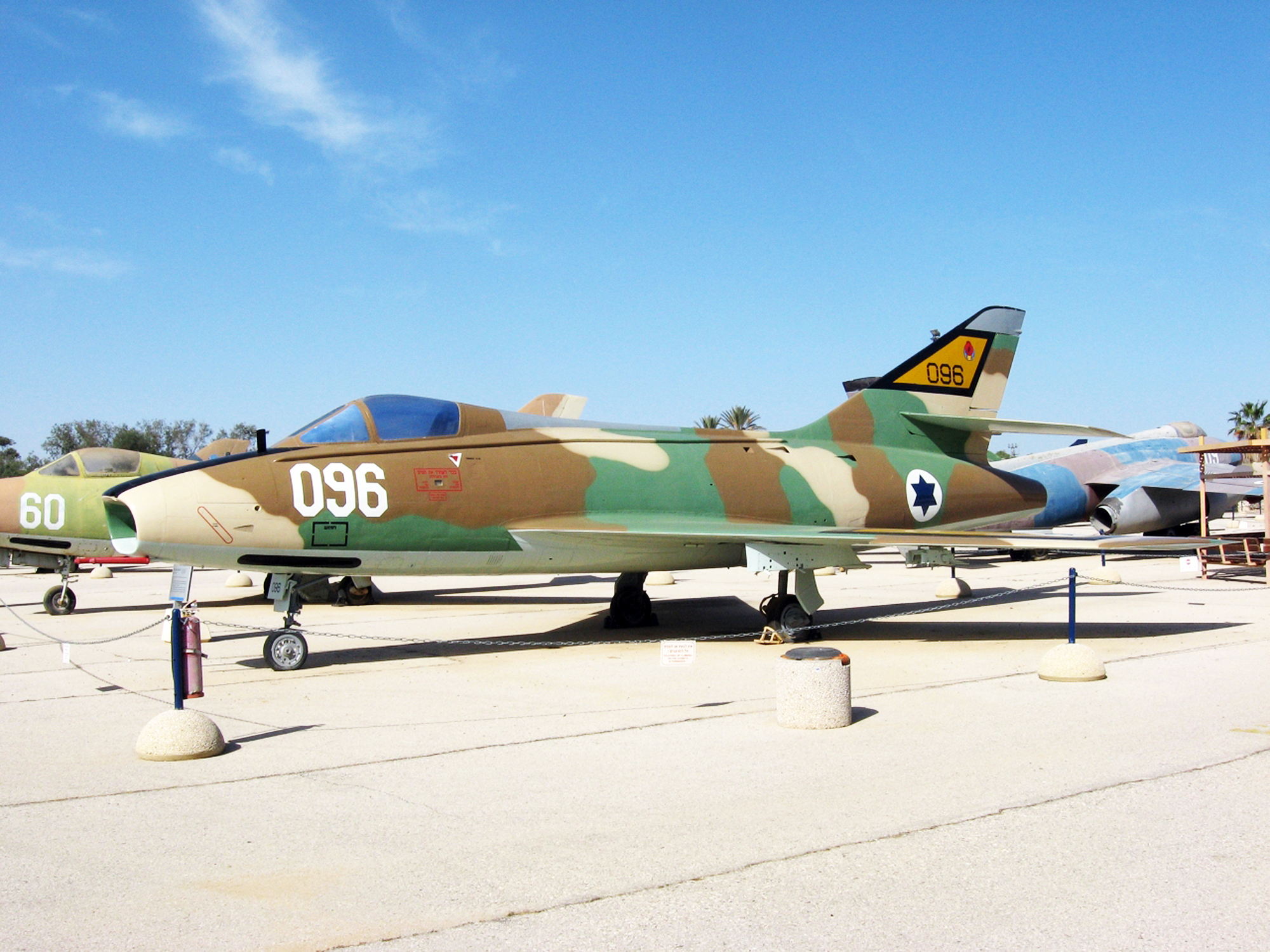 Dassault Super Mystere at the Israeli Air Force Museum in Hatzerim